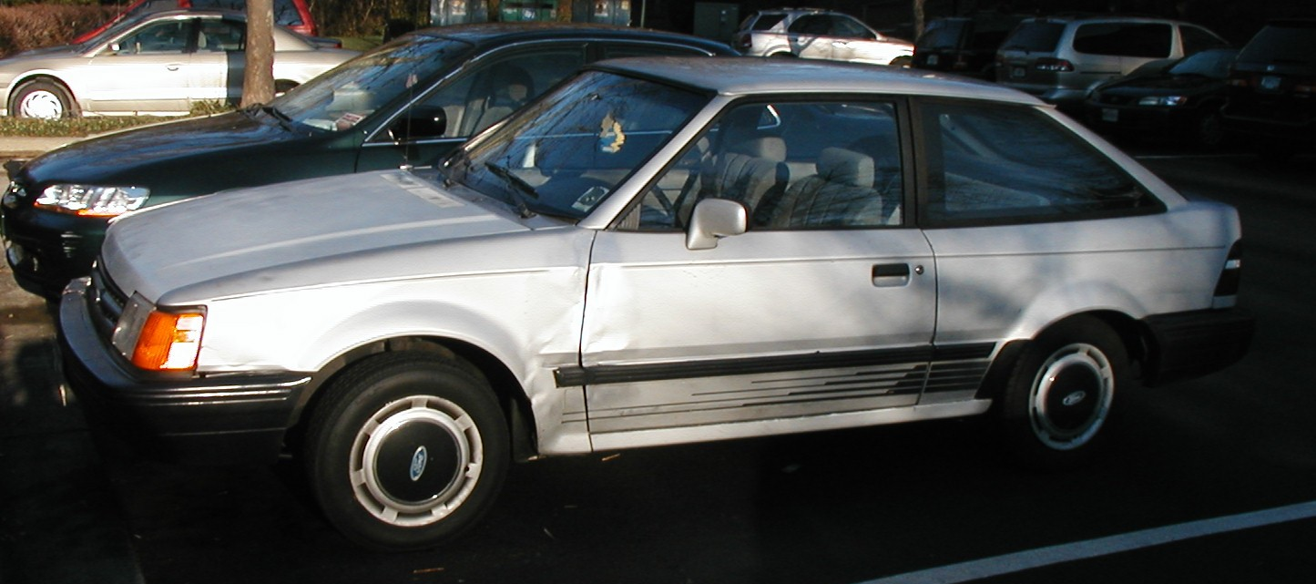 1988-1990 Ford Escort photographed in USA.